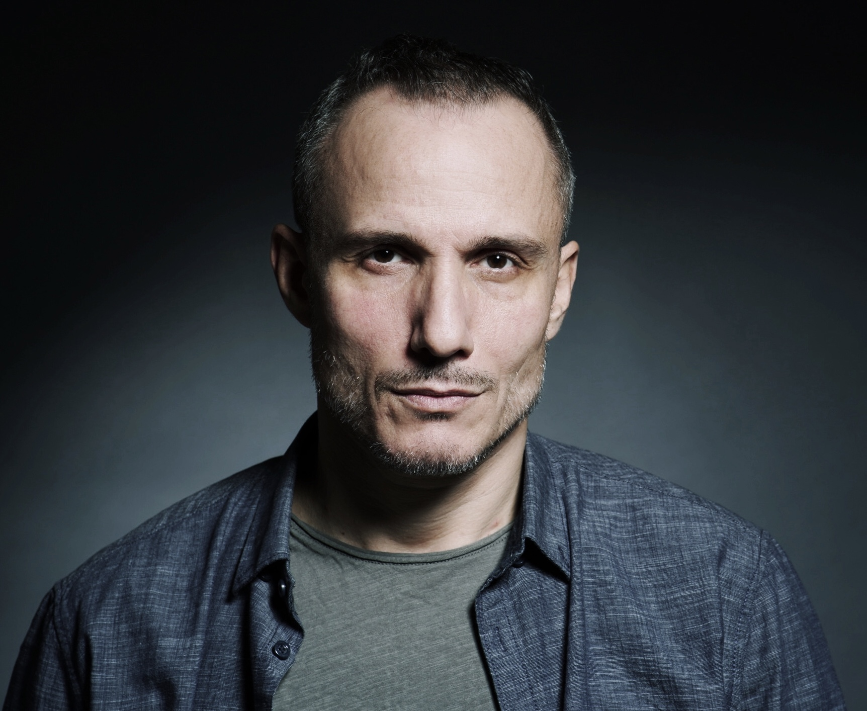 Serbian actor Miloš Timotijević, photo taken by Nebojša Babić